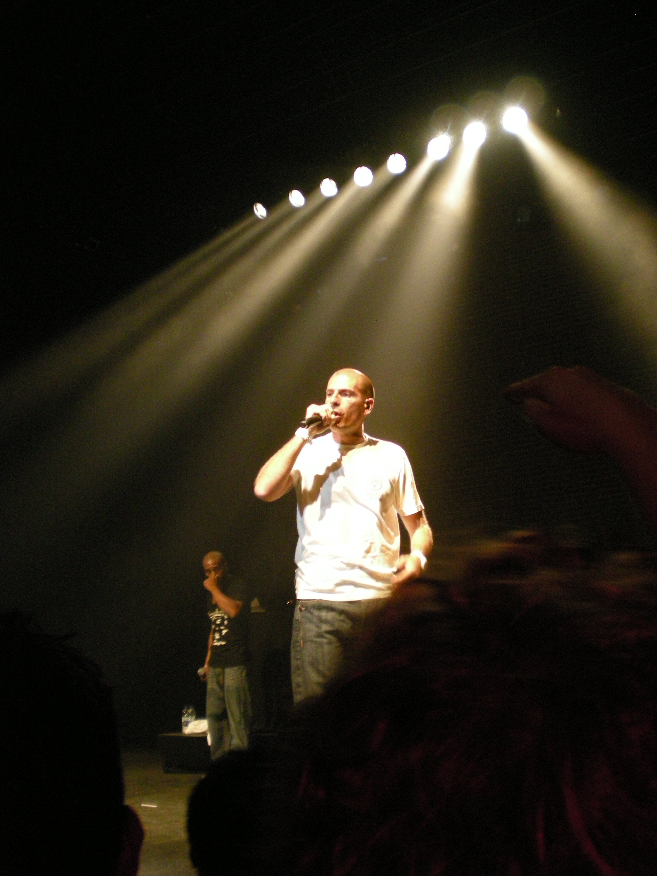 IAM, Olympia de Montréal, 2008